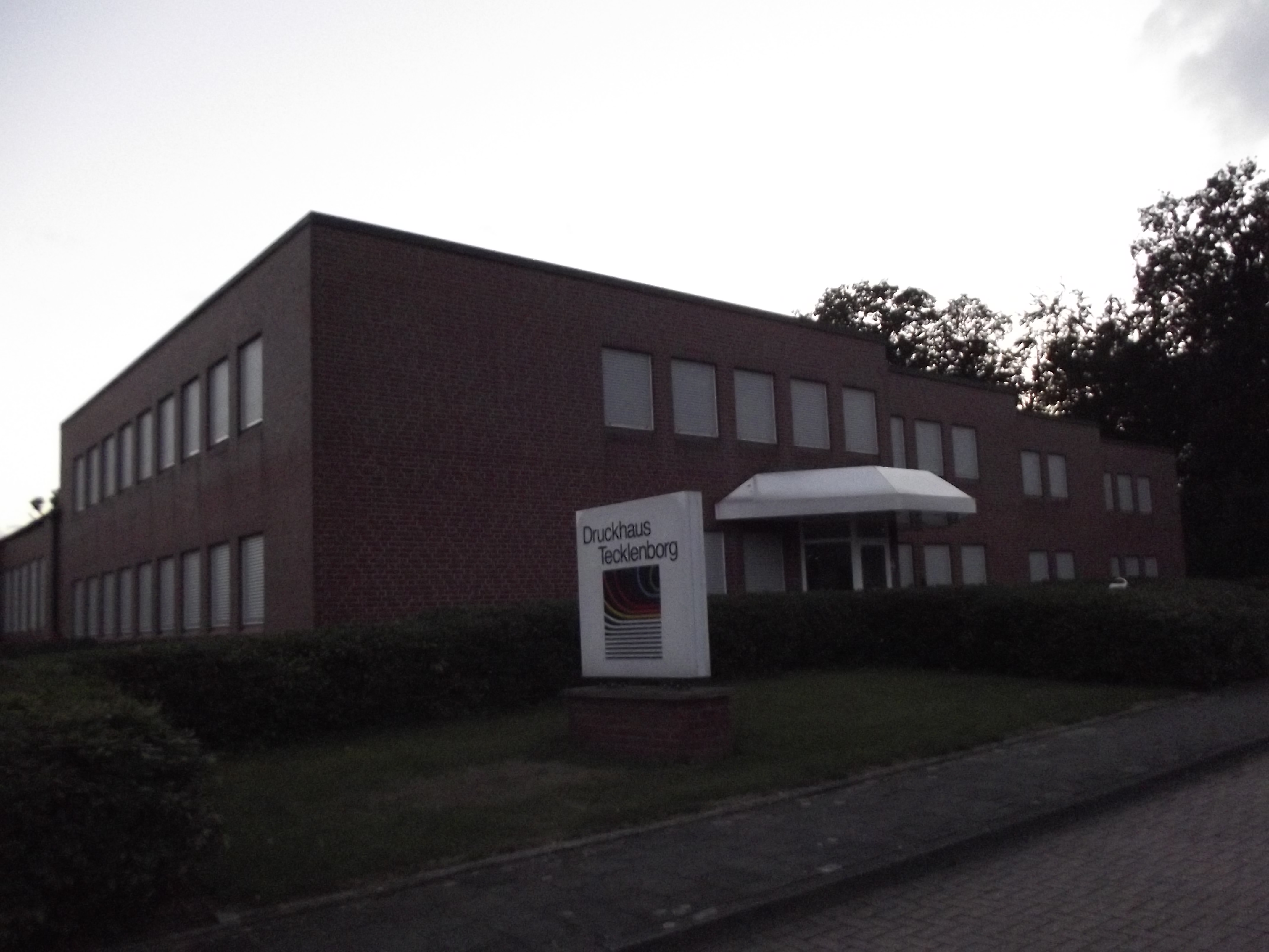 Headquarters of a Westphalian publishing house, shot at the weekend